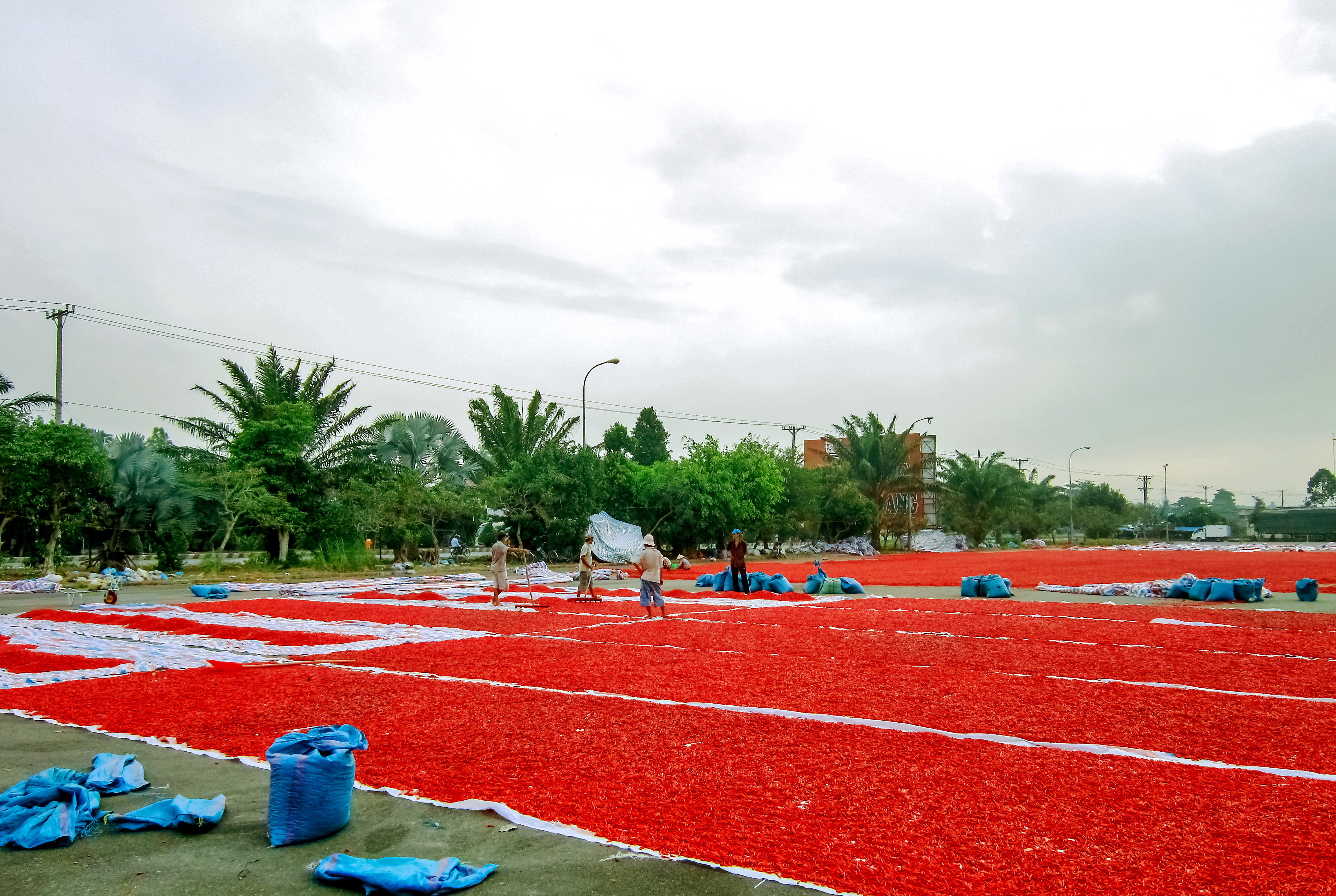 Phơi ớt hiểm để làm bột ớt ở Cái Bè, Tiền Giang, Việt Nam.